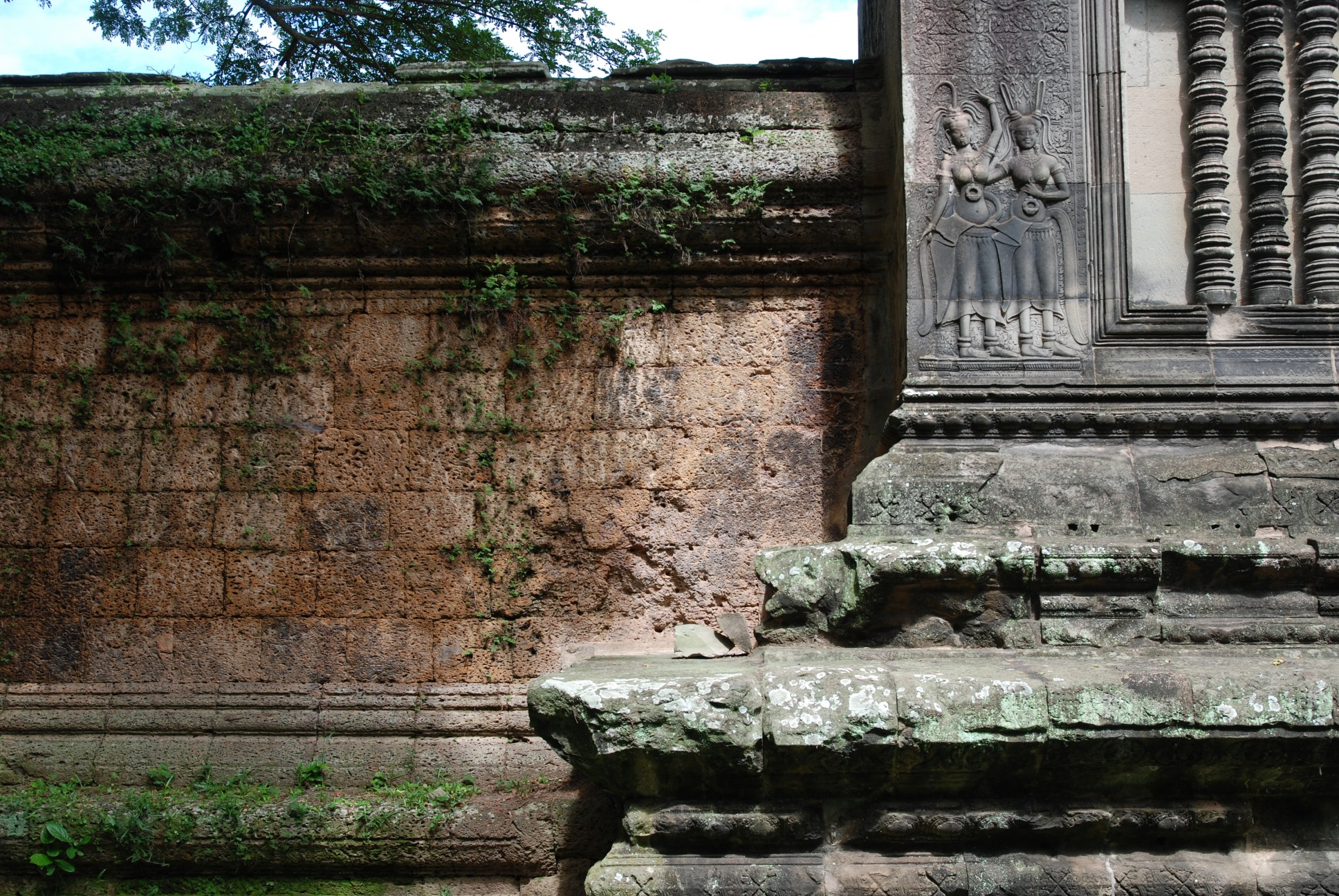 Wall in Angkor Vat (Sandstone & laterite)